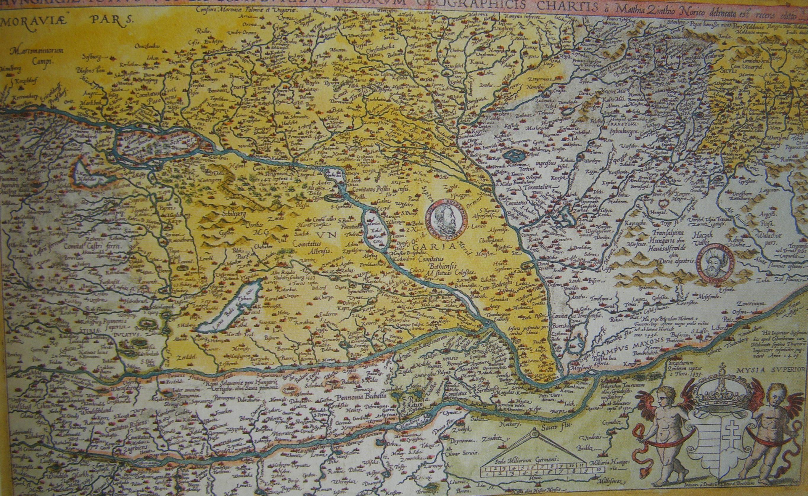 The map of the Ottoman Hungary, the Kingdom of Hungary and Principality of Transylvania in 1567